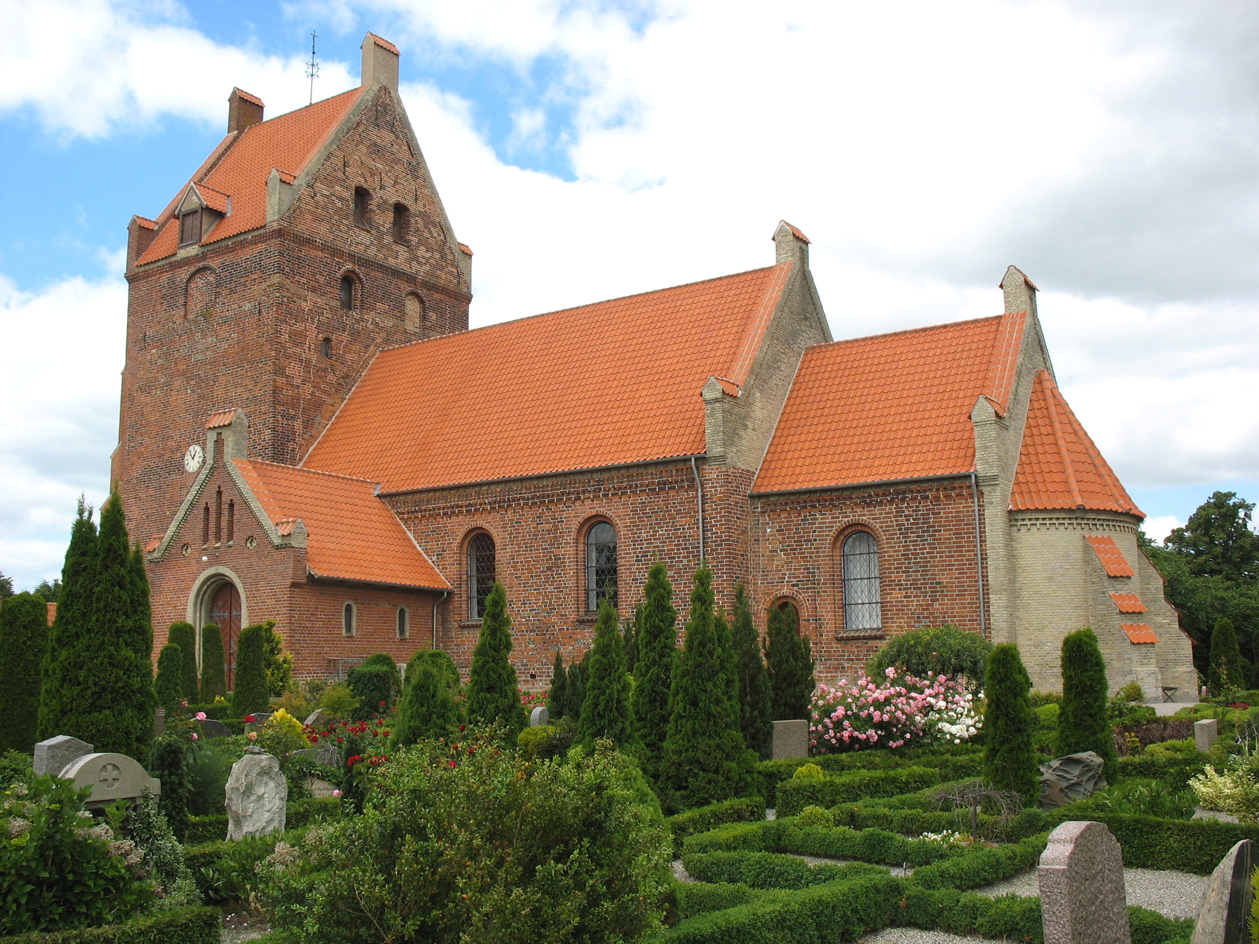 The church "Væggerløse Kirke" in the small town "Væggerløse" located on the island Falster in east Denmark.